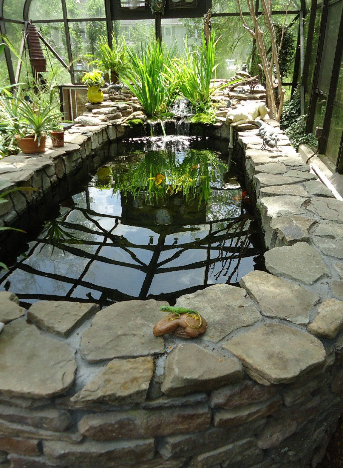 An outdoor (yet covered) heated tank which has several large fish.